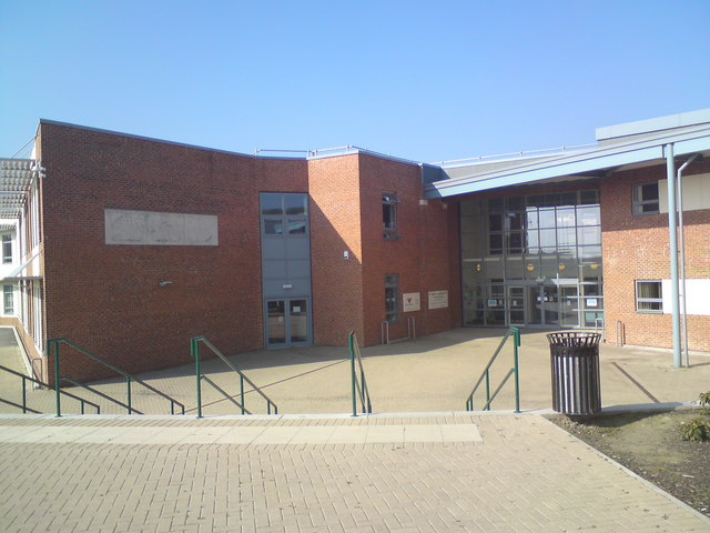 Meadowhead School Entrance to the newly built Meadowhead School